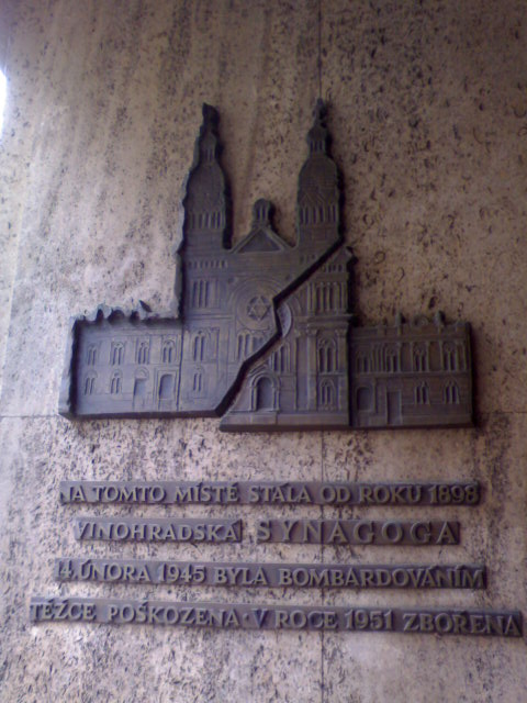 Memorial plaque of the destroyed Vinohrady Synagogue